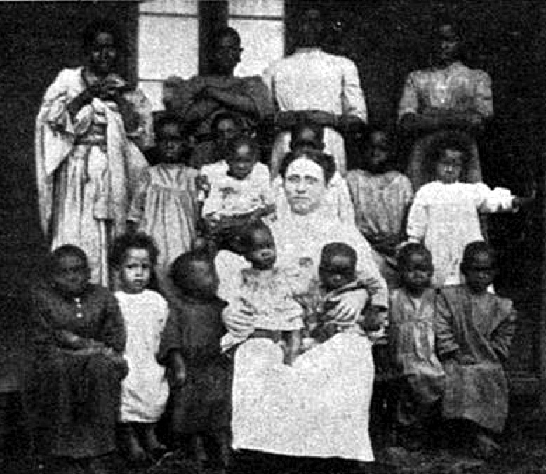 Kijabe girls' home, Africa Inland Mission, Kijabe, Kenya, c. 1914. The missionary in the photograph may be Hulda Stumpf, who helped to run the home from 1907 to 1930. Stumpf was killed in 1930, possibly because she objected to the girls in the home being subjected to female genital mutilation. The missionary in the photograph resembles Stumpf.